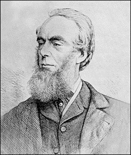 Portrait of James Bateman.